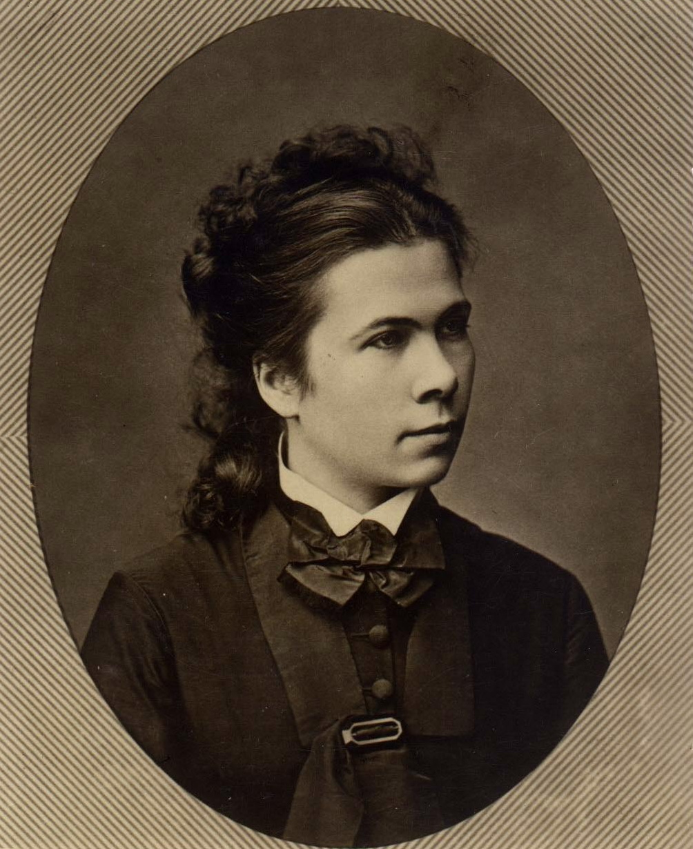 Nadezhda Prokofyevna Suslova (1843—1918), Russia's first female physician.